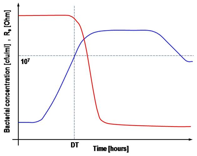 Impedance Microbiology - resistance curve